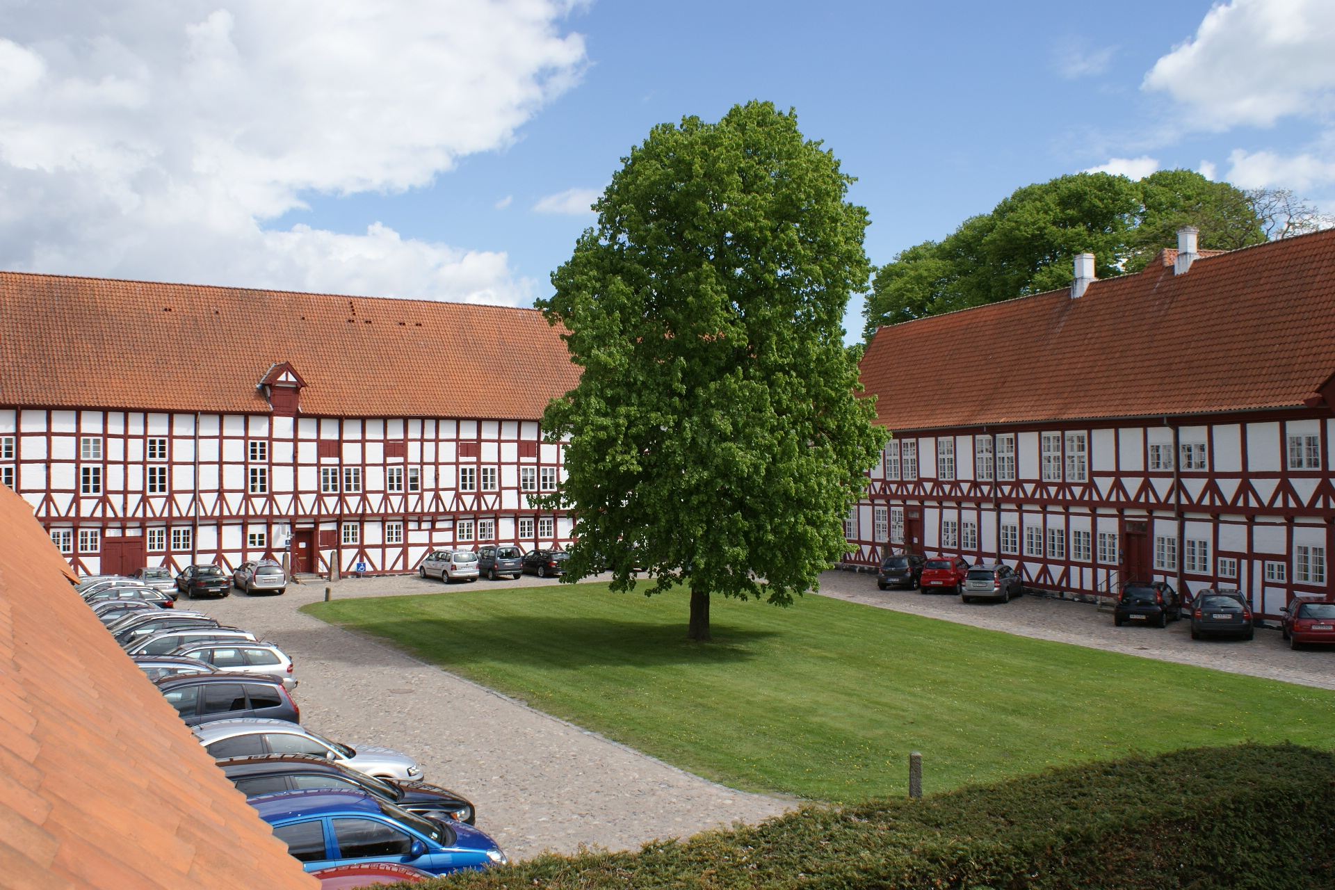 Courtyard of Aalborghus